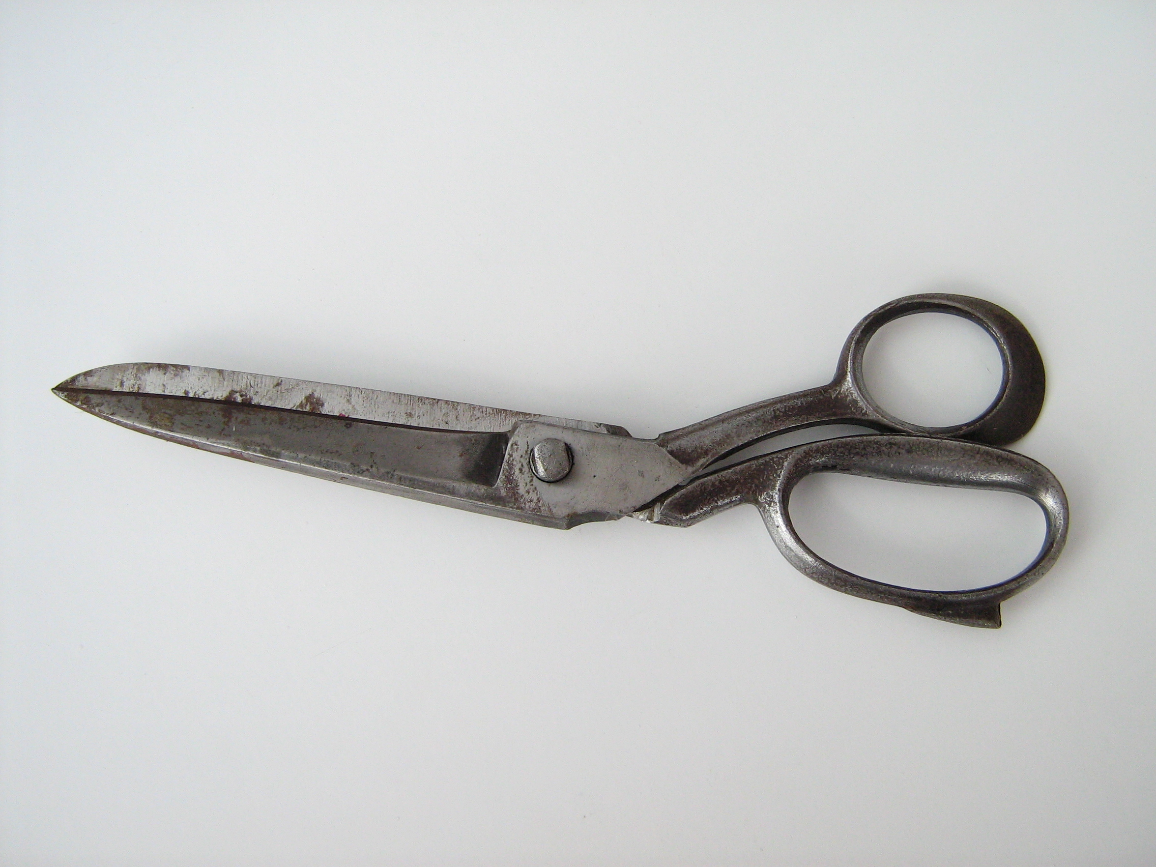 Scissors for cutting carpet.